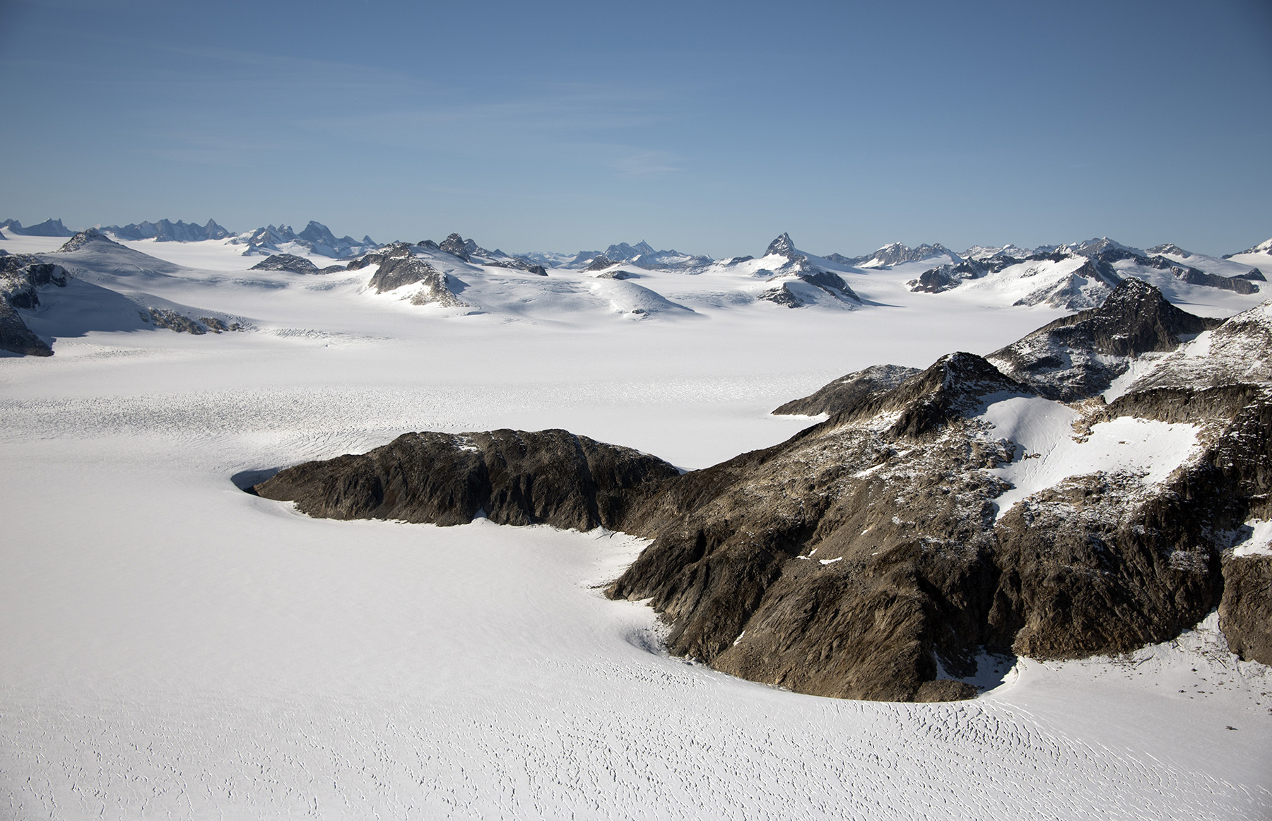 The Juneau icefield looking Northwest (Southeast Alaska)